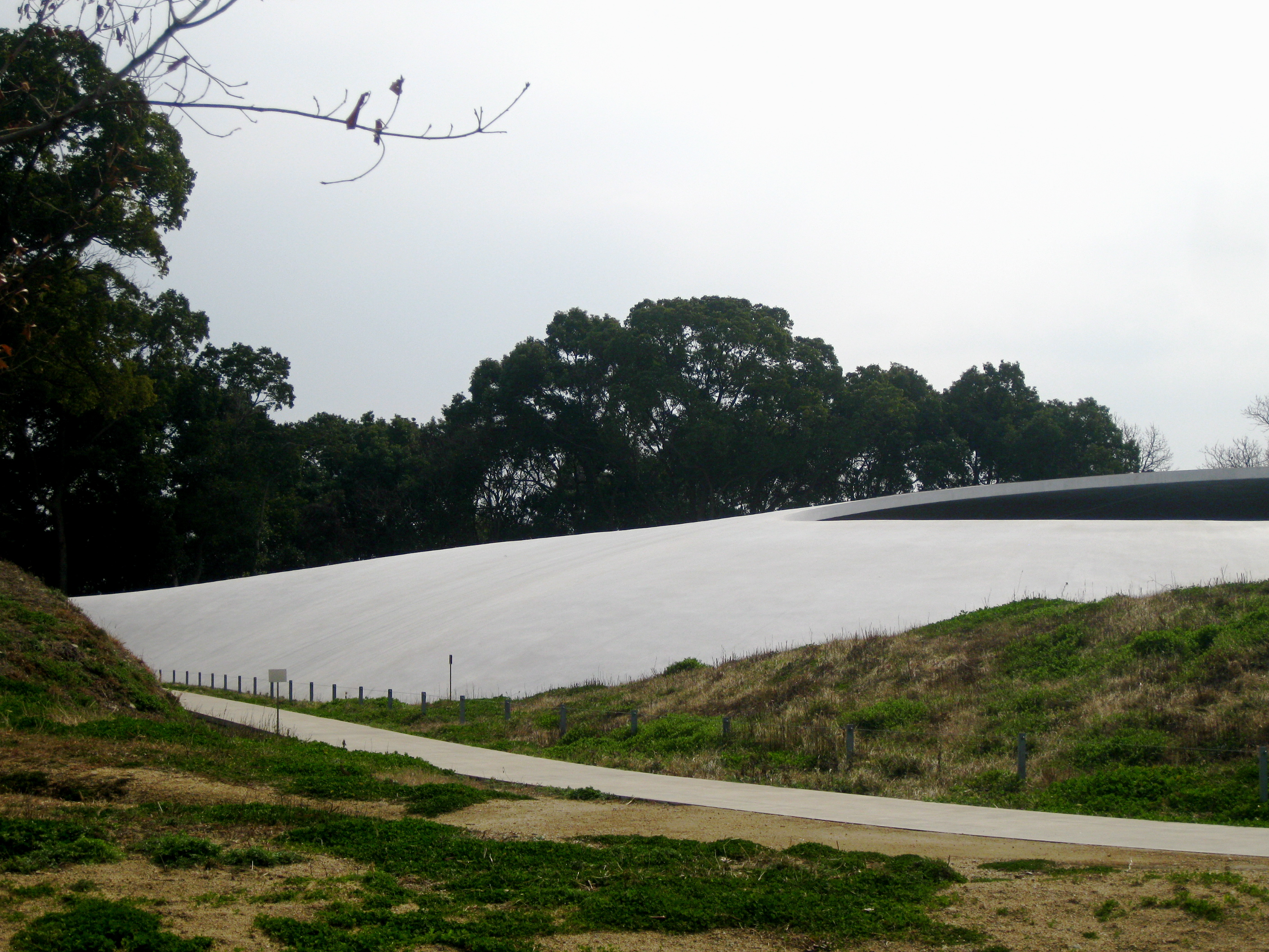 Teshima Museum on Teshima island, Japan by Ryue Nishizawa and Rei Naito